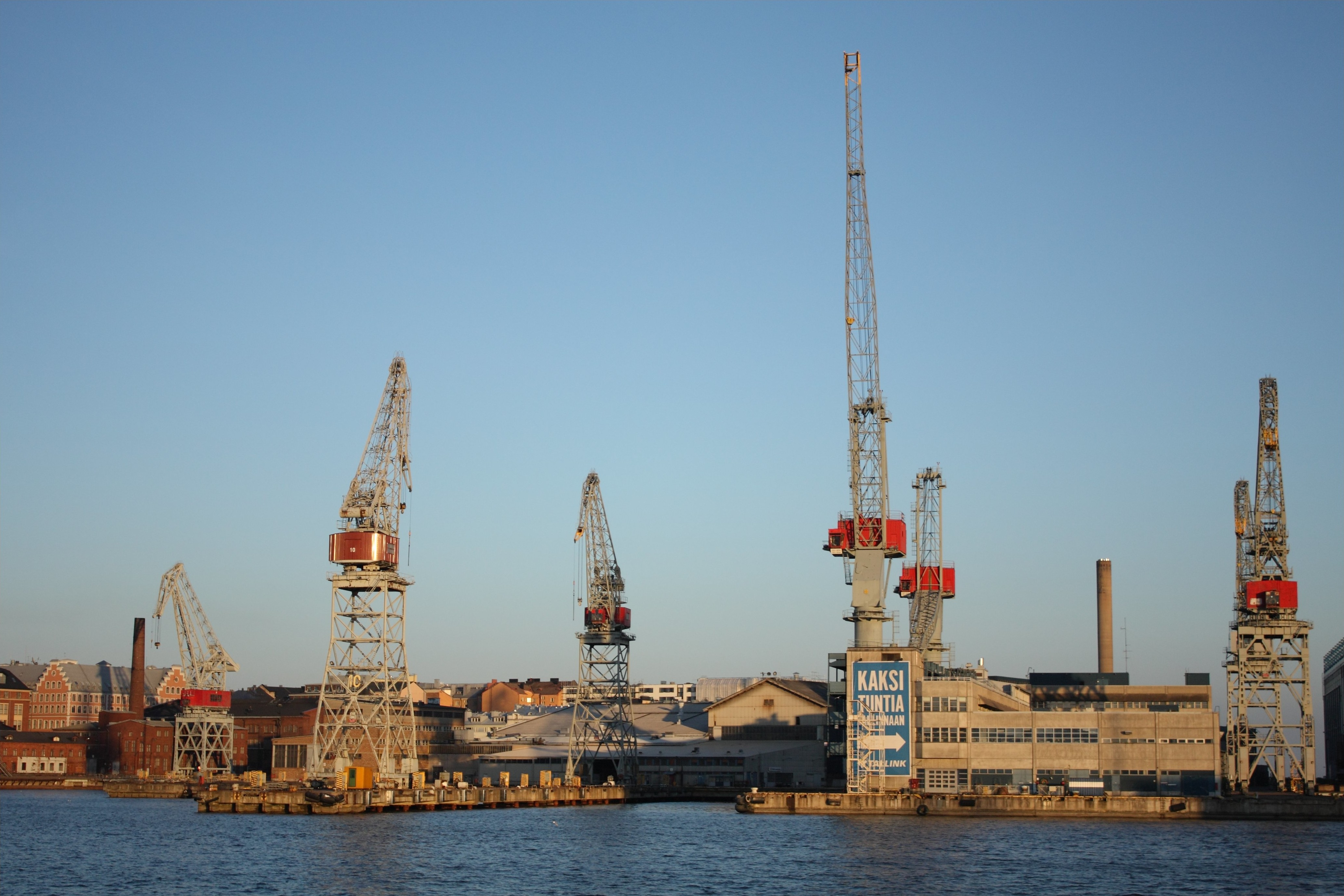 Aker Finnyards shipyard Hietalahti in Munkkisaari, Helsinki, Finland.